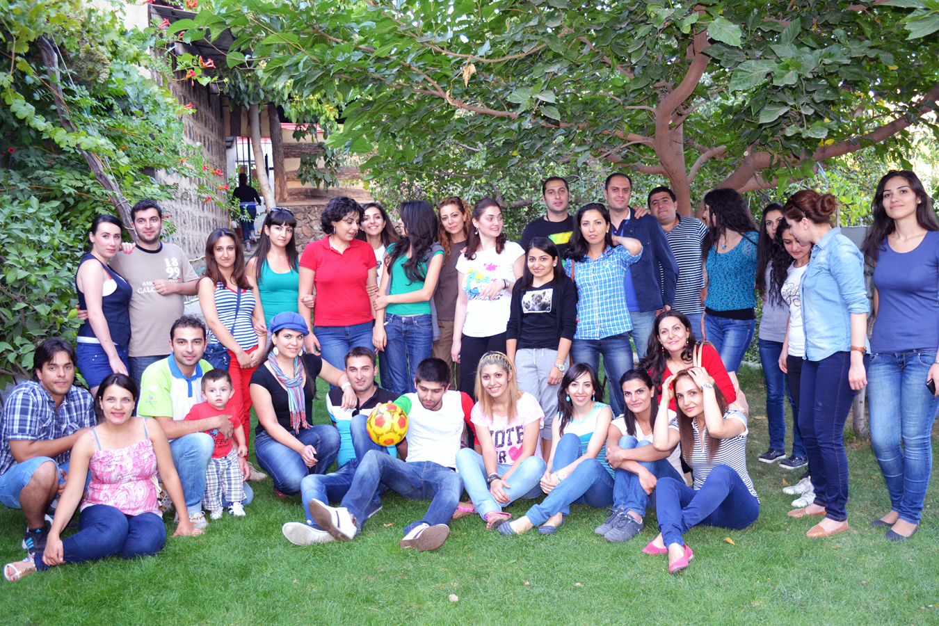 ATC alumni picnic